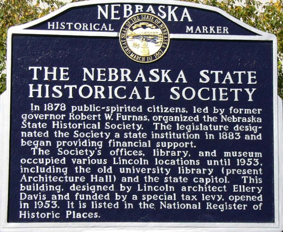 Nebraska State Historical Society Historical Marker, outside the NSHS building in Lincoln, Nebraska